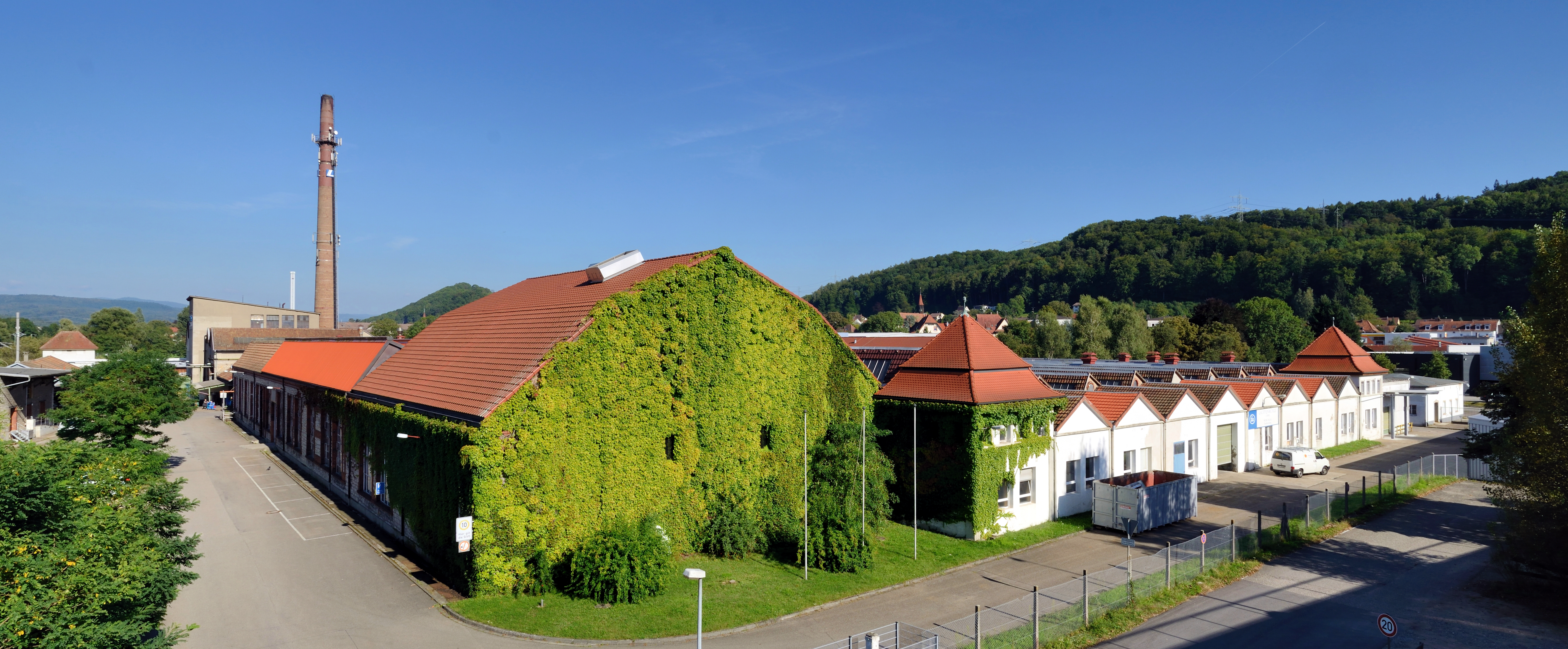 Lörrach-Brombach: "Lauffenmühle" factory